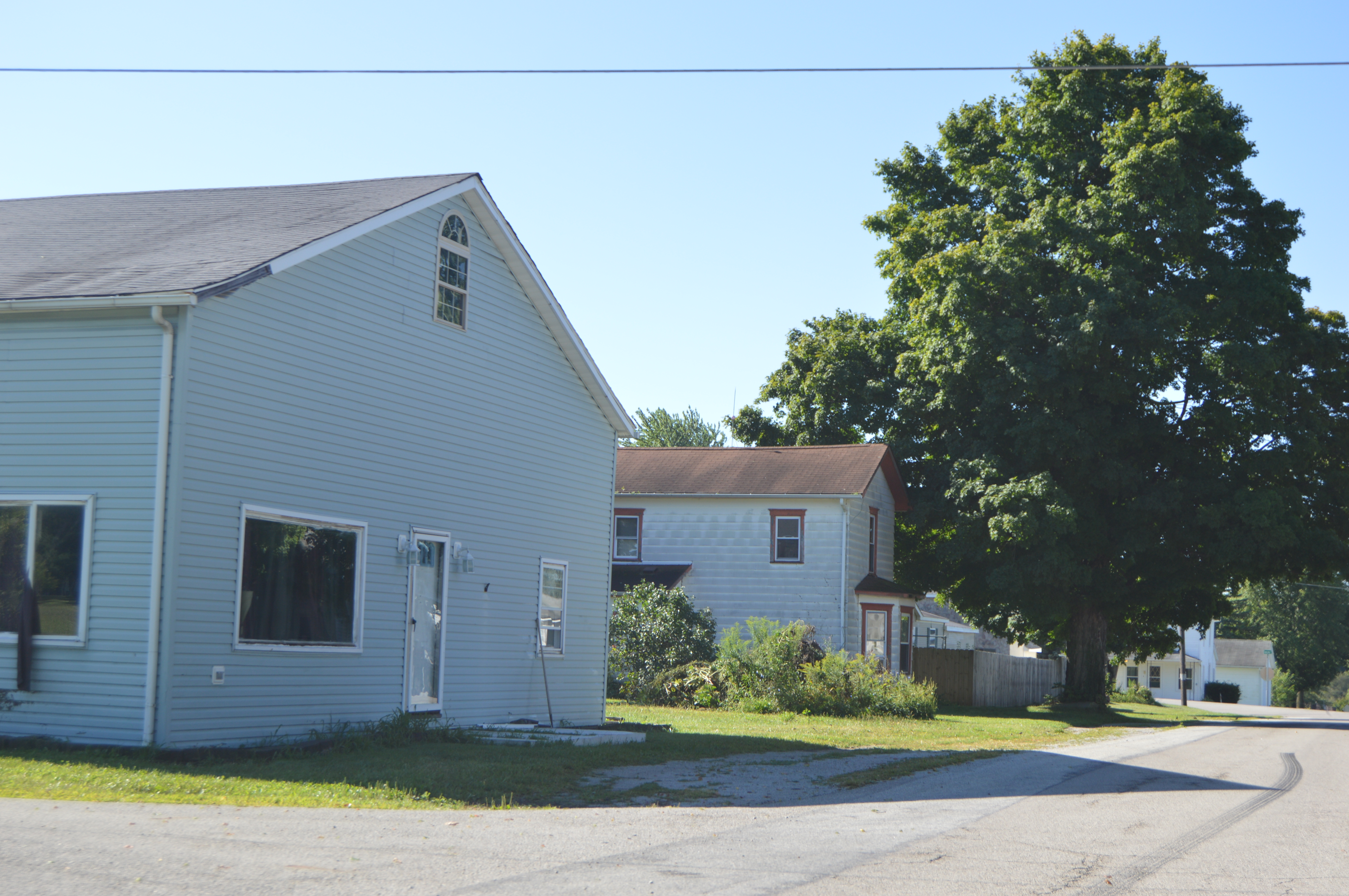 Buildings on the eastern side of Tawawa-Maplewood Road, immediately south of the Tawawa Road intersection, in Tawawa, Ohio, United States.